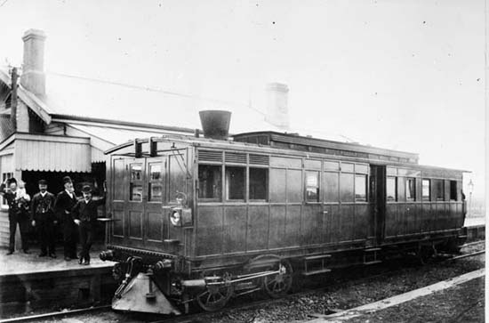 Rowan Car No.1